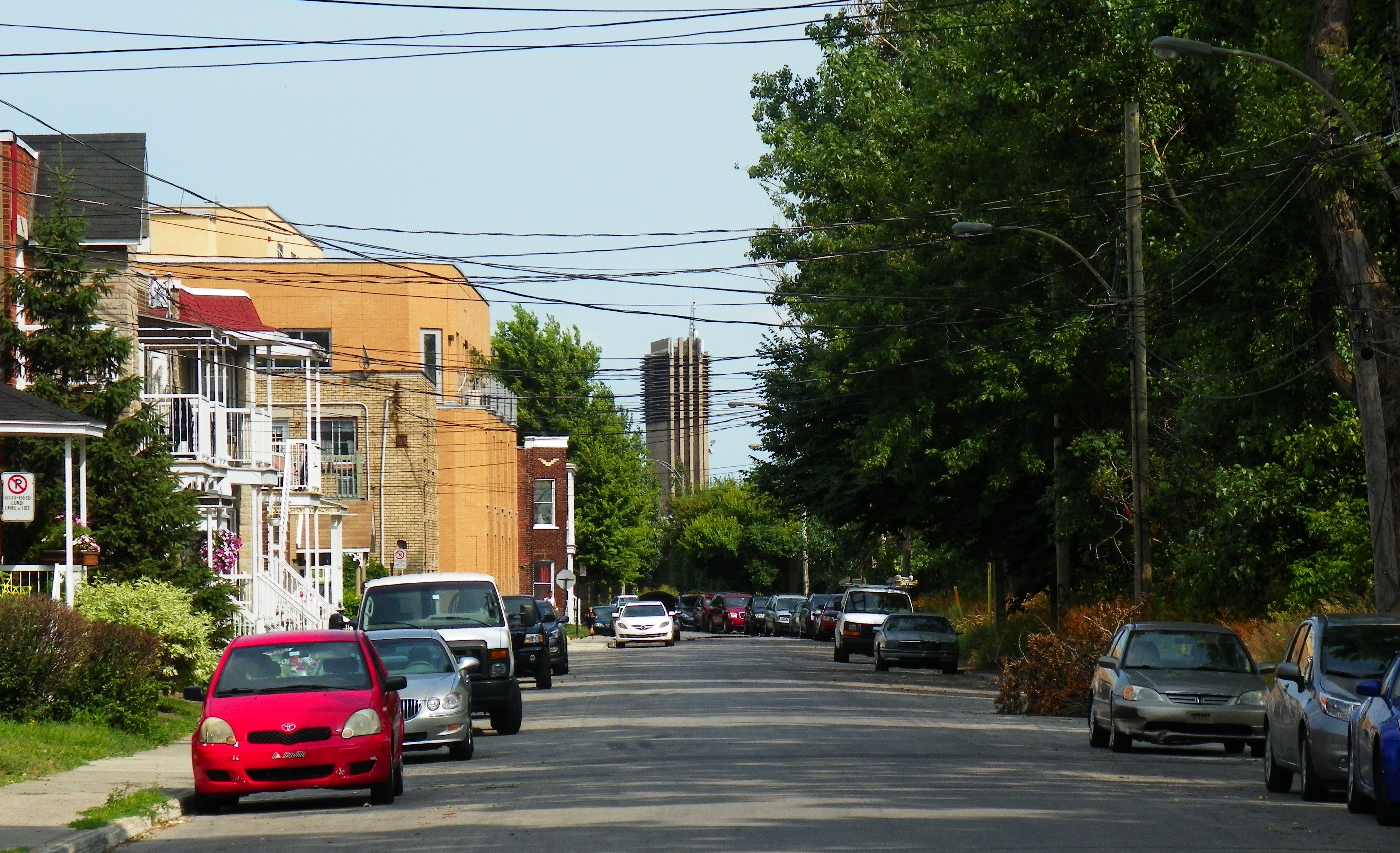 Curatteau street in Mercier, Montreal, Quebec. In background, a ventilation tower for Louis-Hippolyte-La Fontaine tunnel.